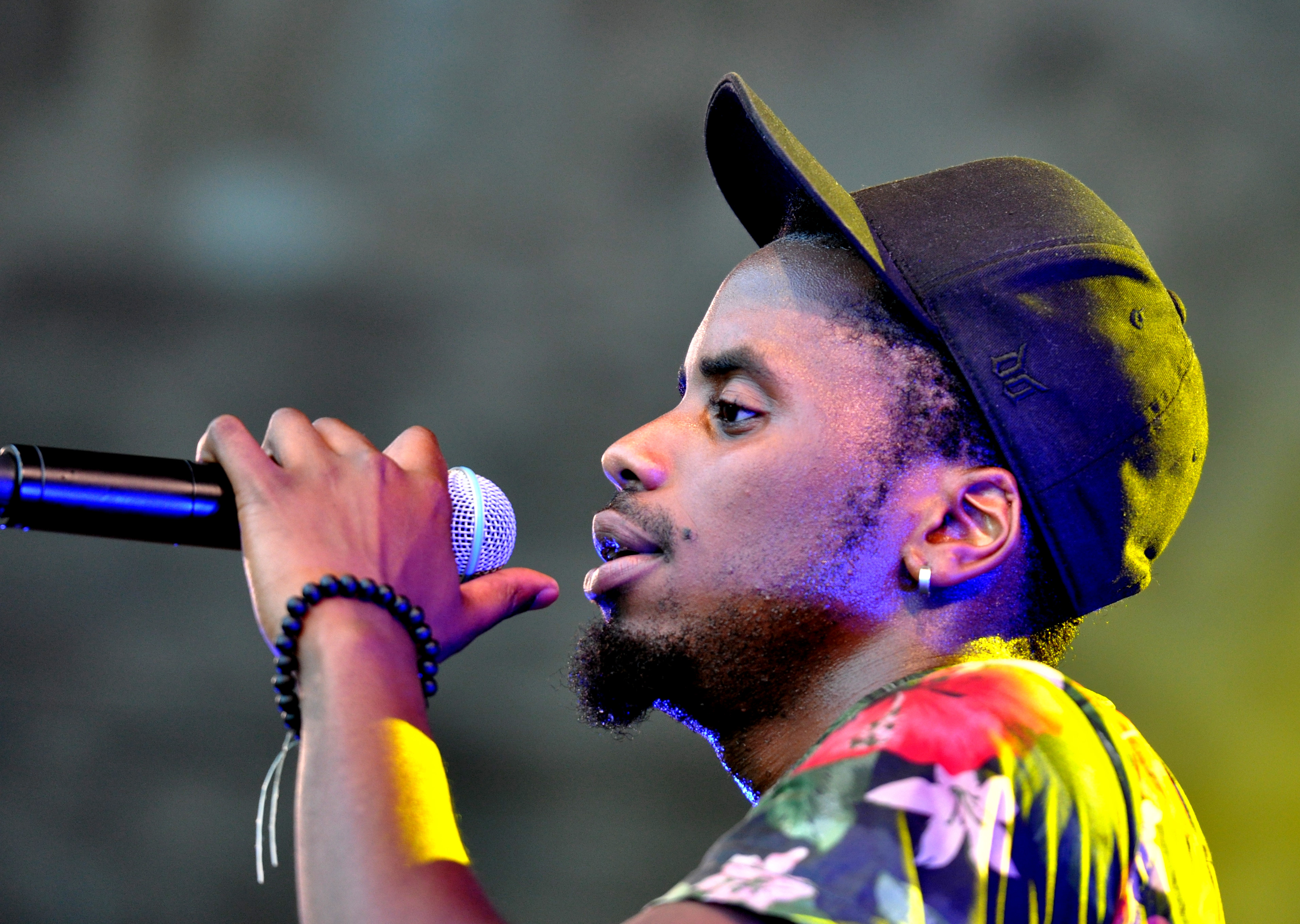 Banda Senderos (DEU/CHL/COD/POL), World Music Festival Horizonte 2015, Ehrenbreitstein Fortress, Koblenz, Rhineland-Palatinate, Germany Festivalsommer This photo was created with the support of donations to Wikimedia Deutschland in the context of the CPB project "Festival Summer".